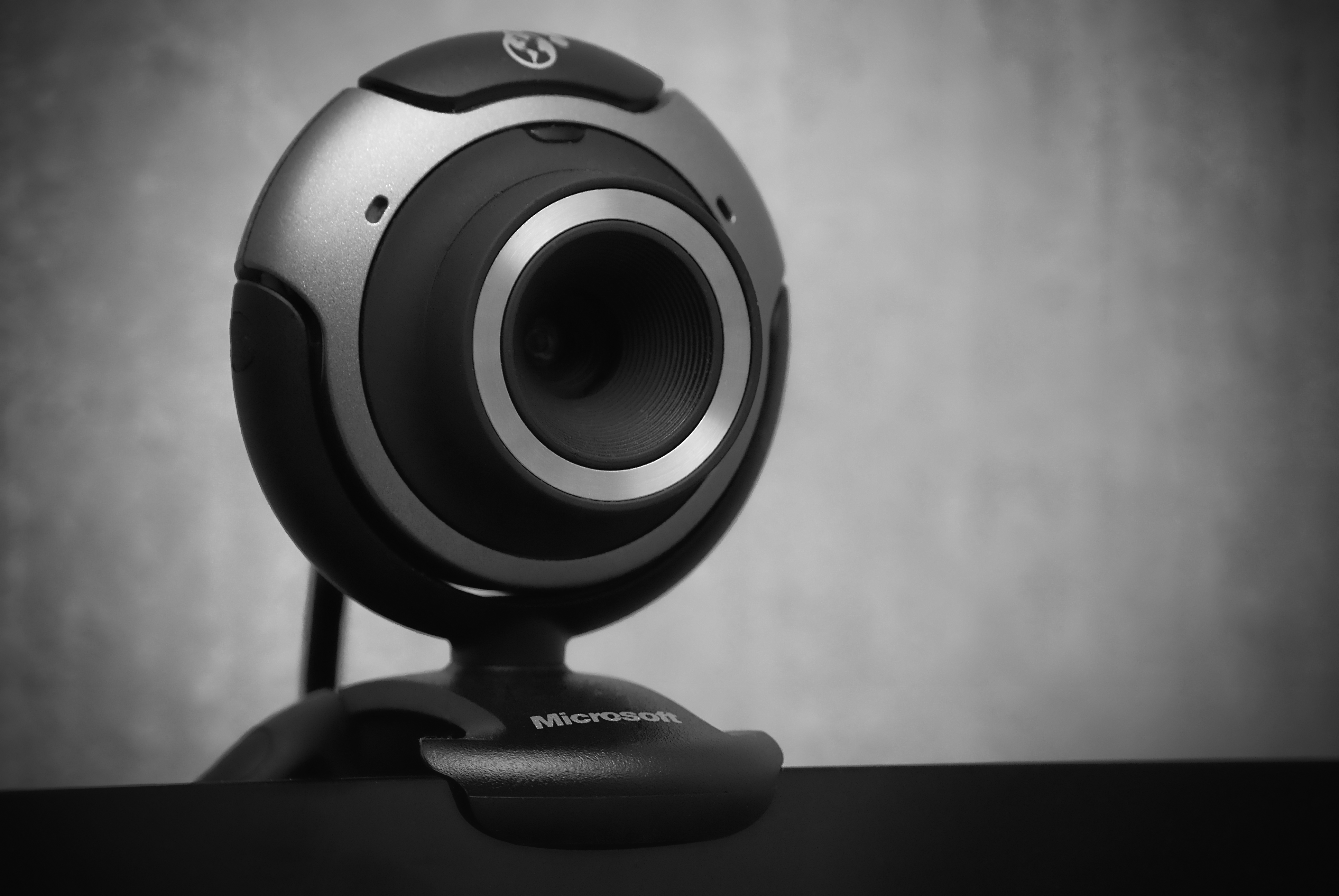 Grayscale image of a Microsoft LifeCam VX-3000 webcam attached to a display.